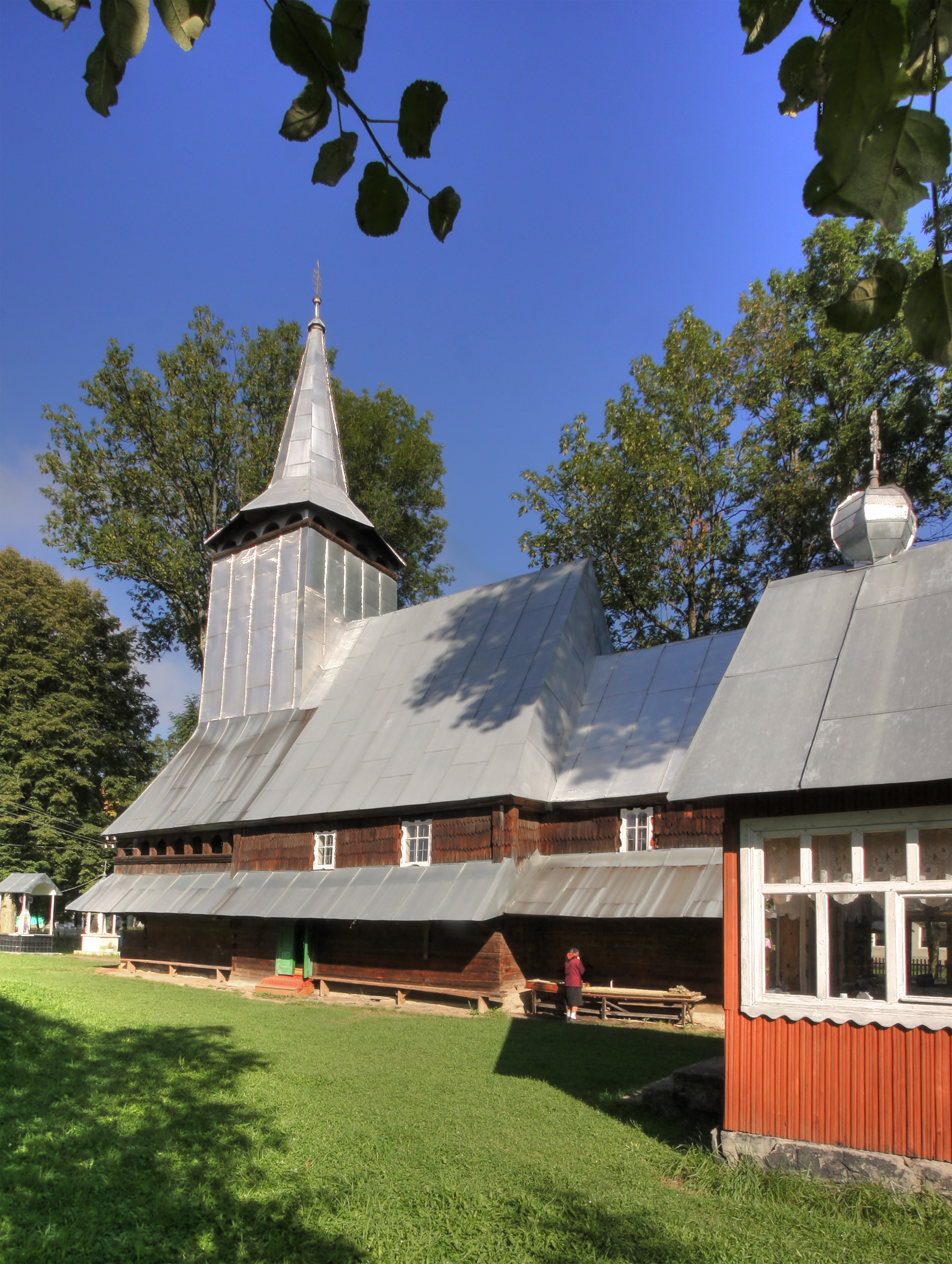 Church St. Dmytro (Demetrius of Thessaloniki). Repynne, Mizhhiria Raion, Zakarpattia Oblast, Ukraine